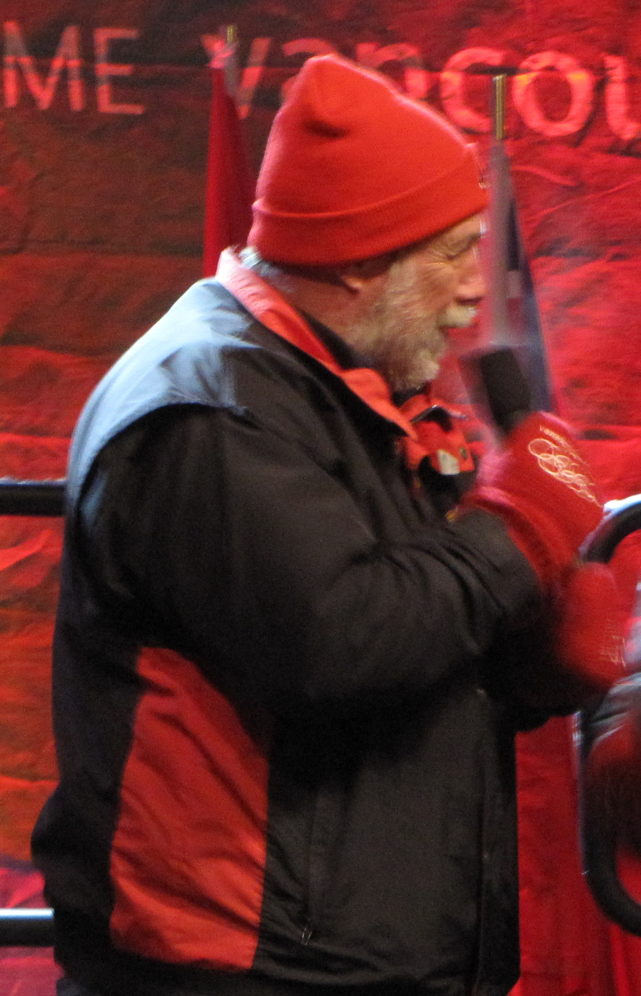 Bill Murdoch, MPP for Bruce—Grey—Owen Sound, at the Olympic Torch ceremony in Owen Sound